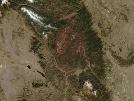 Cropped satellite image of Colorado Rocks to show area around Hayman fire of 2002